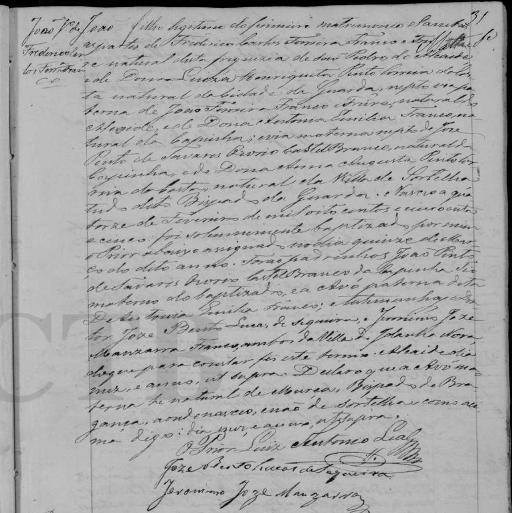 Baptism register (at the time, the equivalent of a birth record) of João Franco (1855-1929), dated 15 March 1855. Alcaide Parish, Fundão.